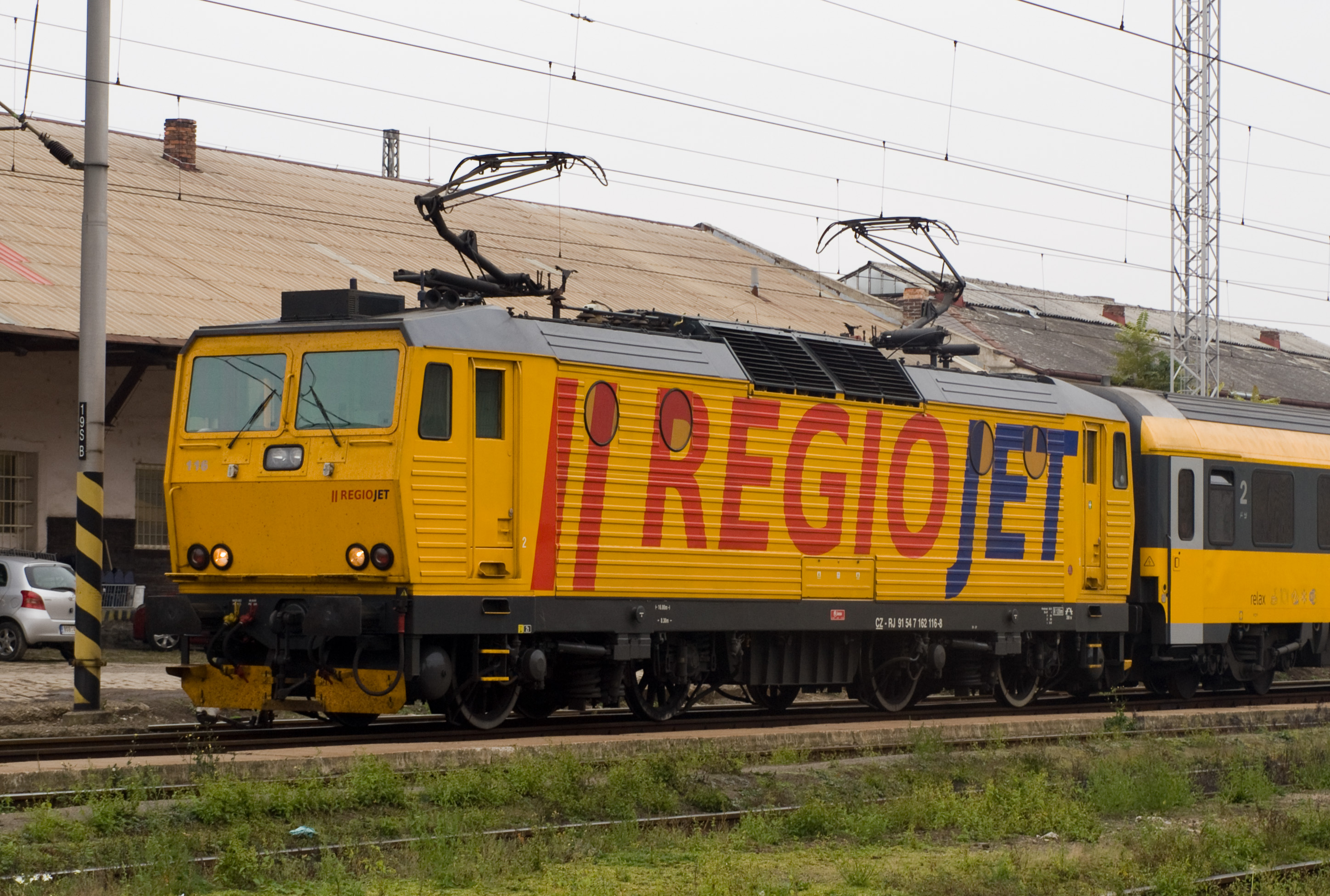 Locomotive Class 162 116-8, train of RegioJet at Praha-Smíchov, severní nástupiště Tato série fotografií vznikla za laskavého svolení společnosti Student Agency – RegioJet